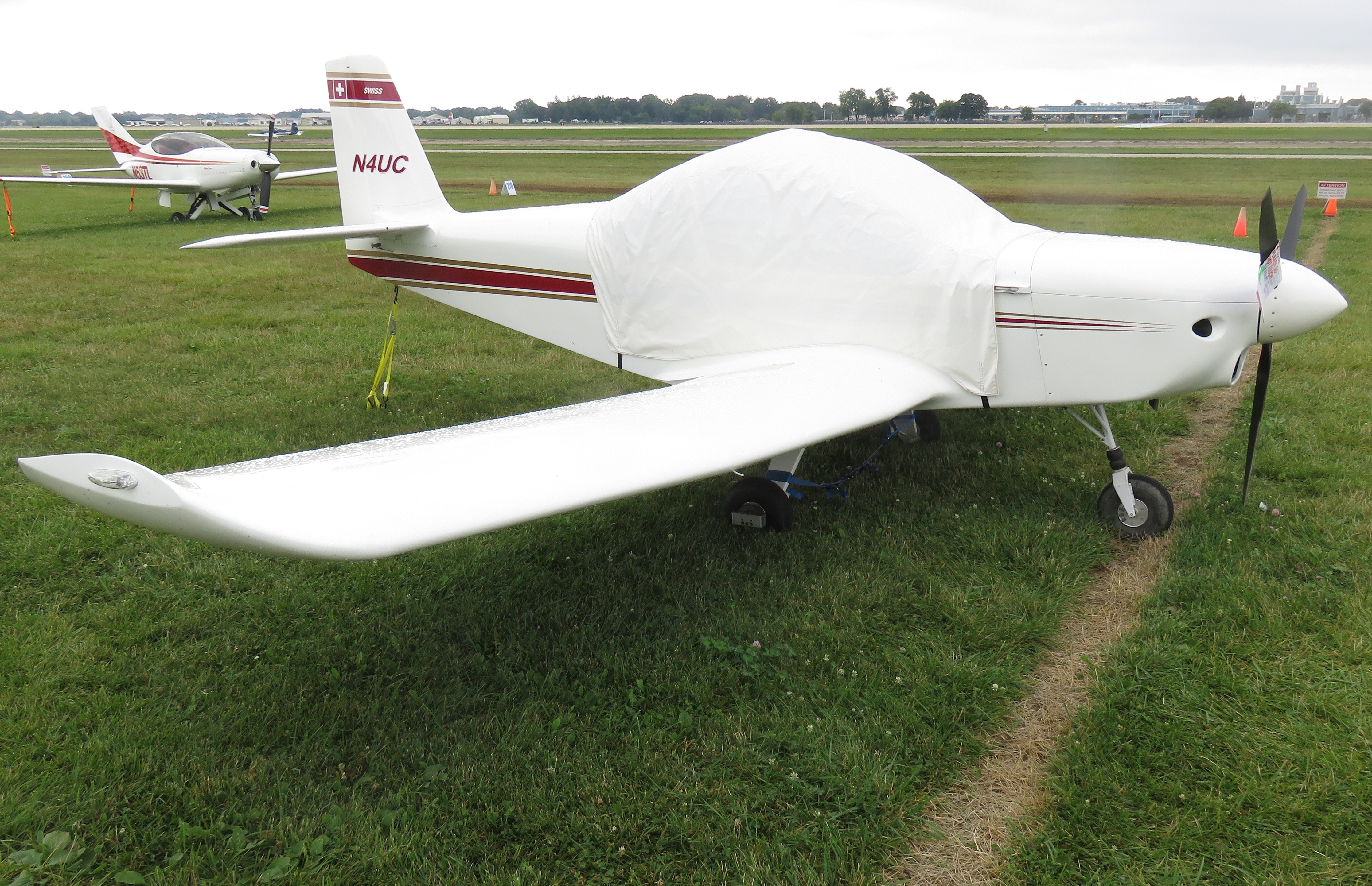 Cherry BX-2